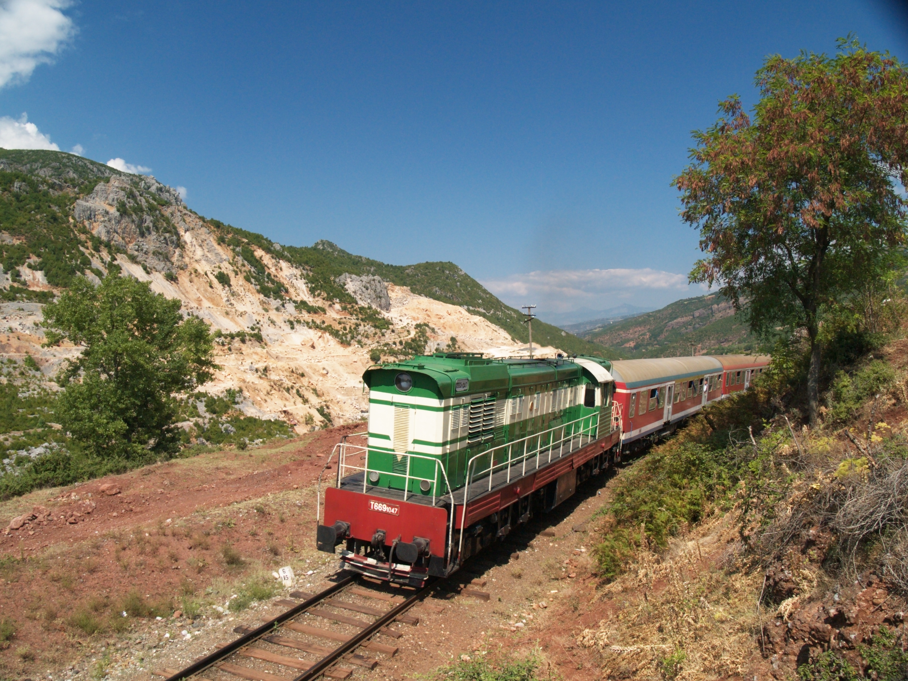 The T669 1047, a reliable machine of the HSH Albanian Railways is climbing out of the valley on the now abandoned railway between Librazhd and Prrenjas on its way to Pogradec. The most beautiful Albanian railway was closed for passenger traffic in 2012.